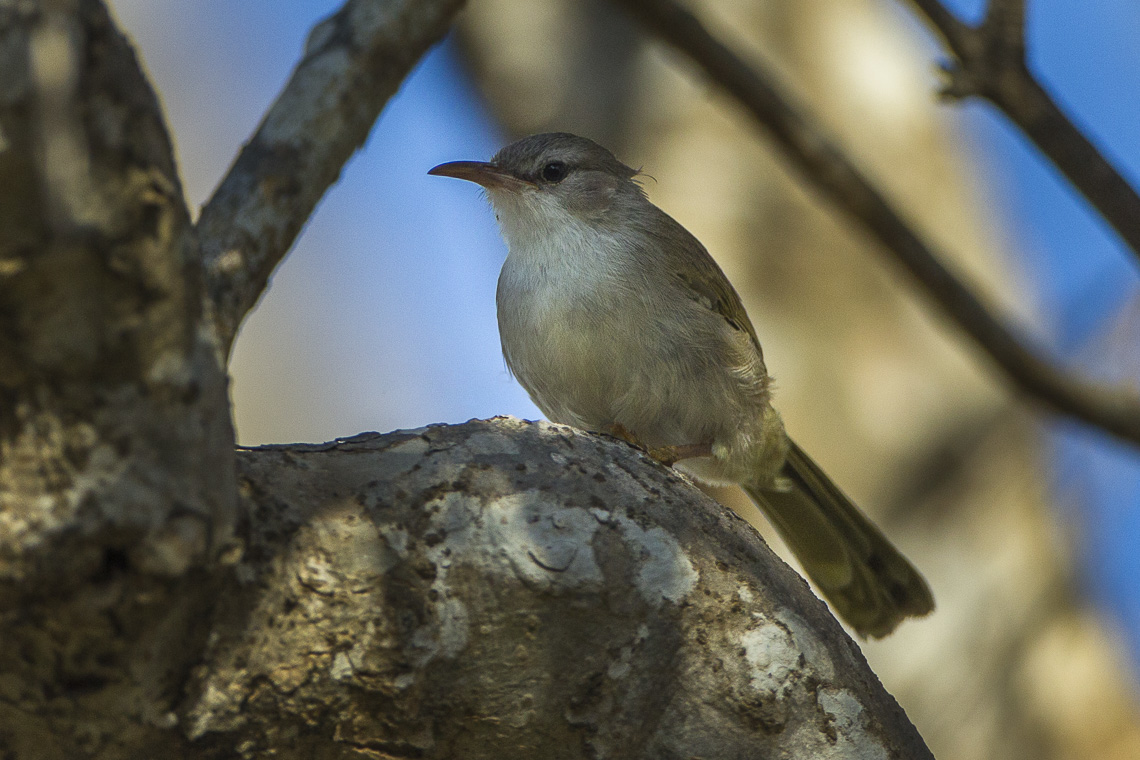 Thamnornis - Madagascar_S4E8810